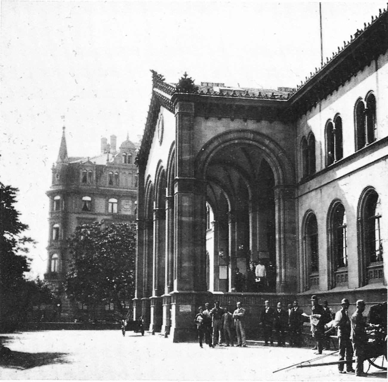 The Main-Neckar station in Frankfurt am Main